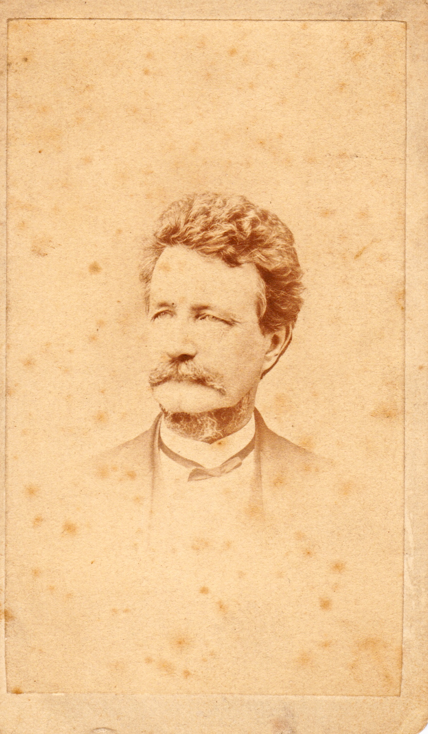 Samuel Bard 1823-1878 (Idaho Governor), front